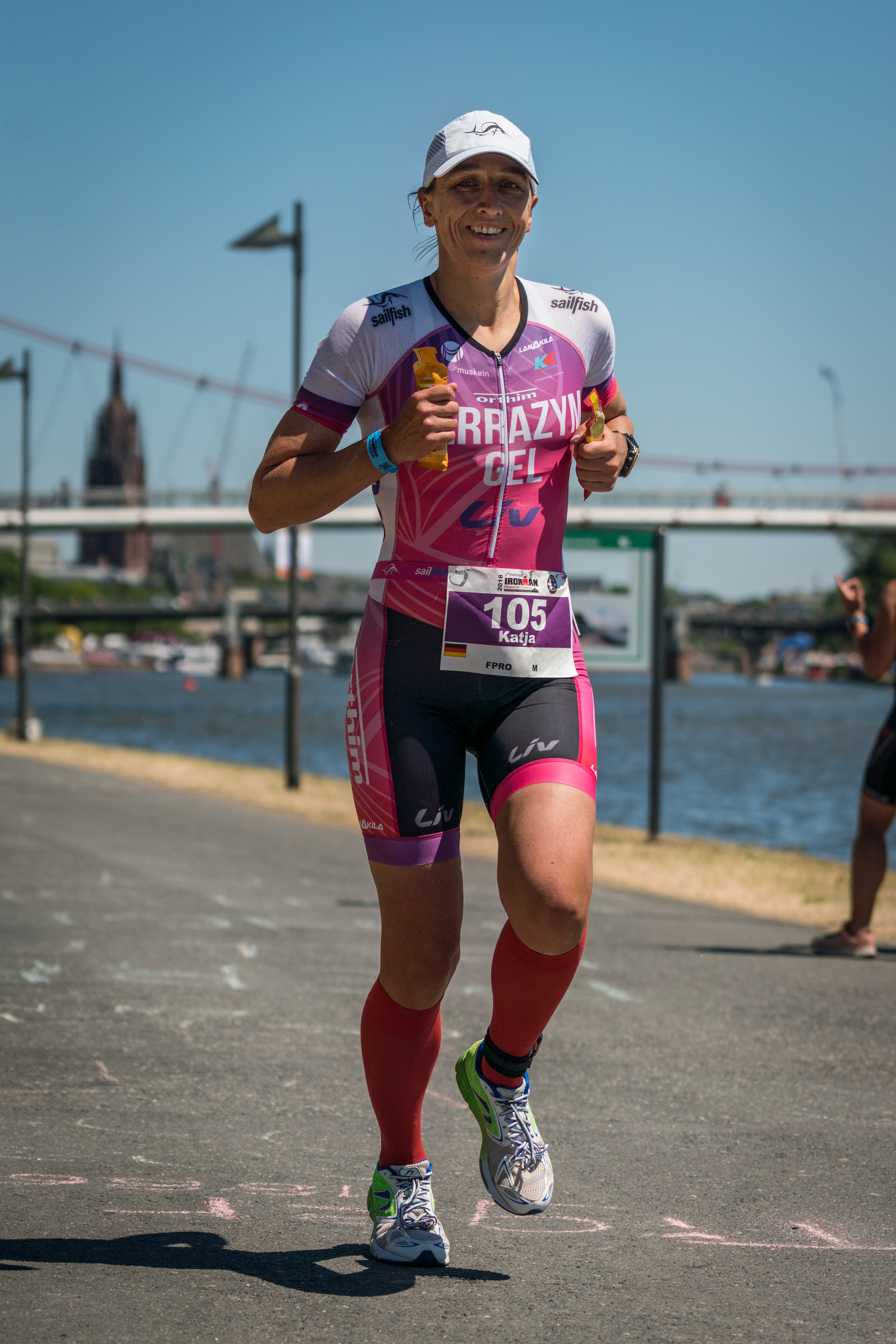 Fifth female Katja Konschak at the 2018 Ironman European Championship in Frankfurt am Main (Germany).